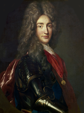 James FitzJames, 1st Duke of Berwick. Son of James II of England.